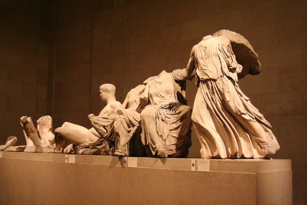 Room 18, British Museum.